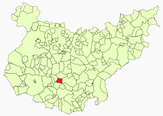 Puebla de Sancho Pérez